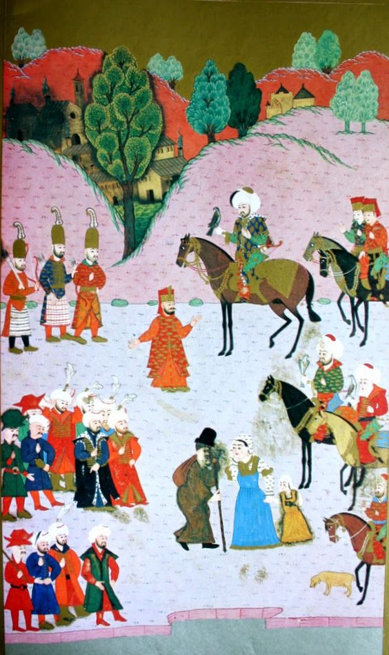 Ottoman Sultan Mehmed I hunting near the river Tuna (Danup) during his campaign on Wallachia.